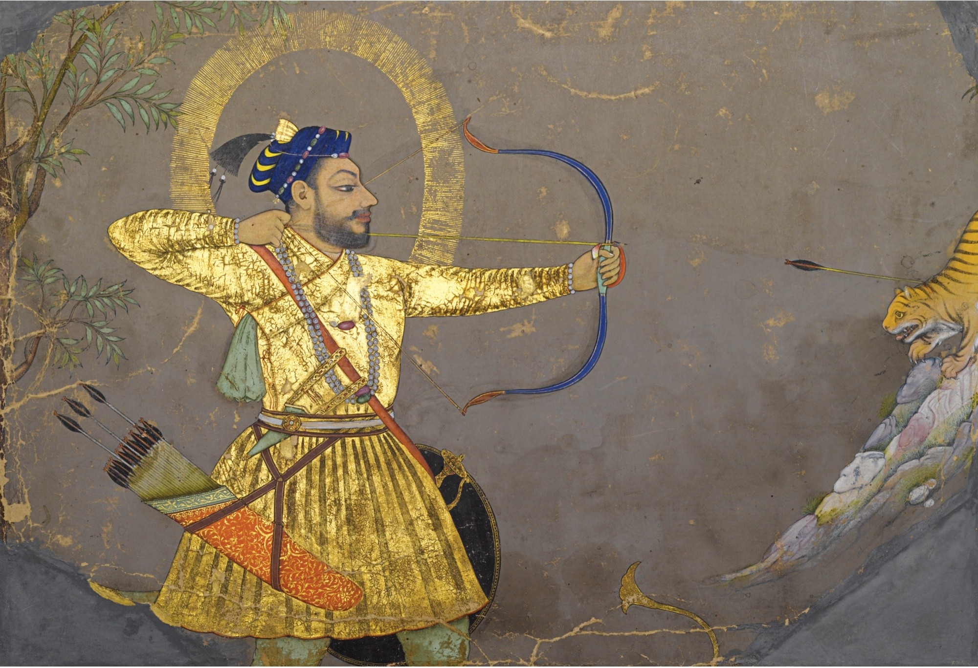 Sultan Ali Adil II Shah of Bijapur hunting tiger Opaque watercolor and gold on paper 21.8 by 31.5cm. circa 1660